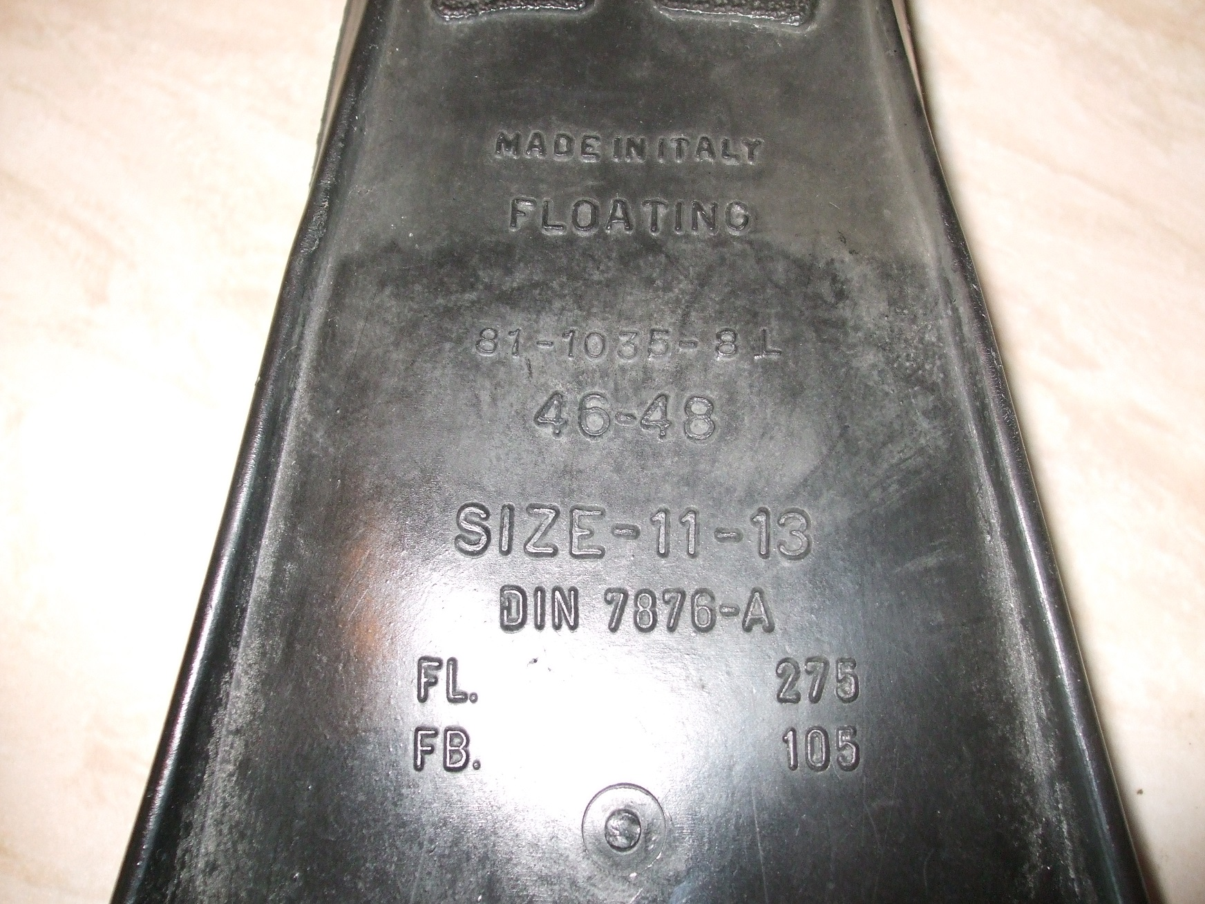 This image of the sole of a Marina Dolfino full-foot fin is designed to accompany a forthcoming article about a German standard focusing on the dimensioning of swimming fins. "DIN 7876-A" indicates the number of the German standard (DIN 7876), with particular reference to full-foot fins (DIN 7876-B would denote an open-heel fin). "FL 275" and "FB 105" identify this fin as having a foot length of 275 millimetres and a foot width of 105 millimetres.